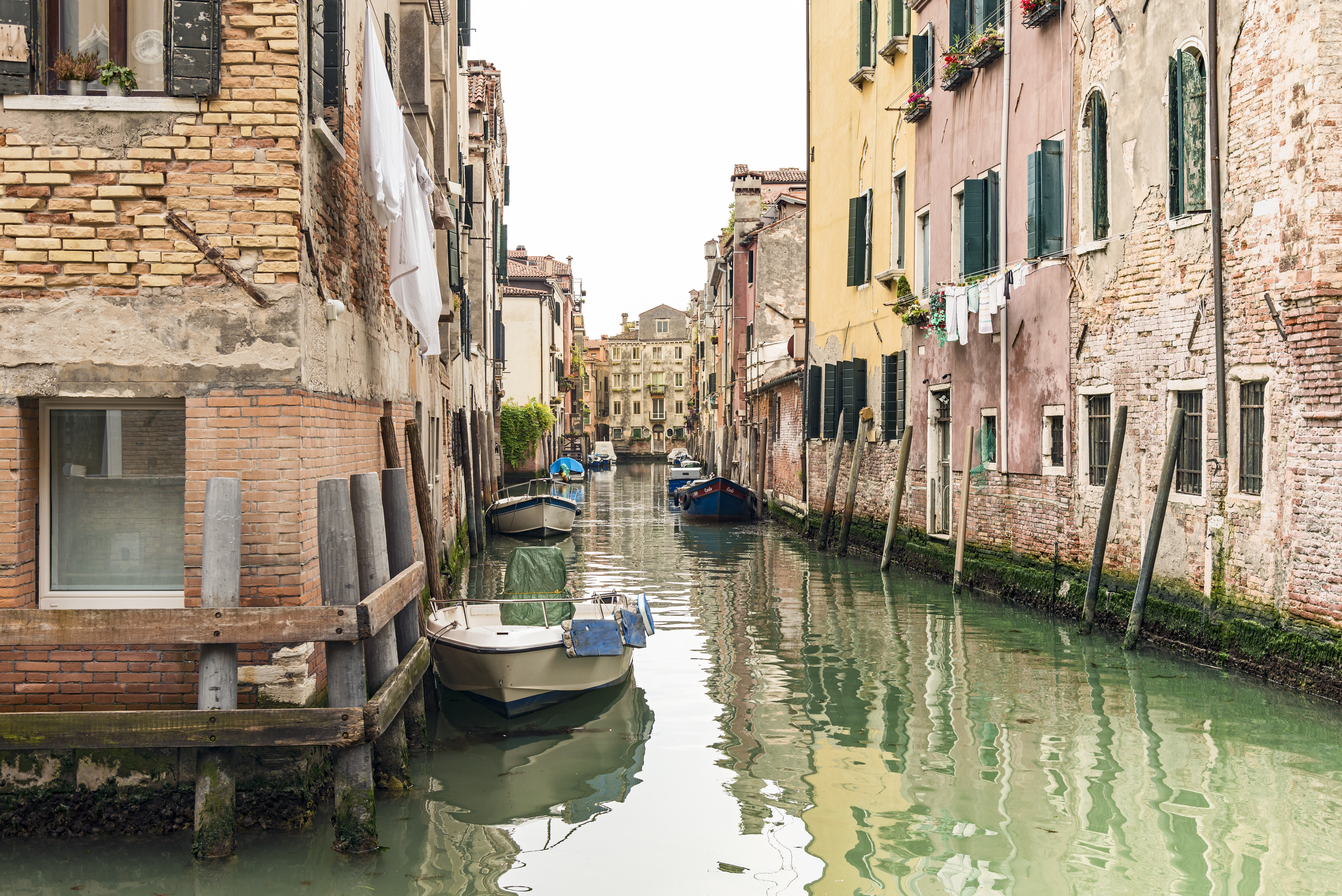 Rio de l'Acqua Dolce in Venice. Seen in its entirety, from the Fondamenta Zen to rio Priuli.